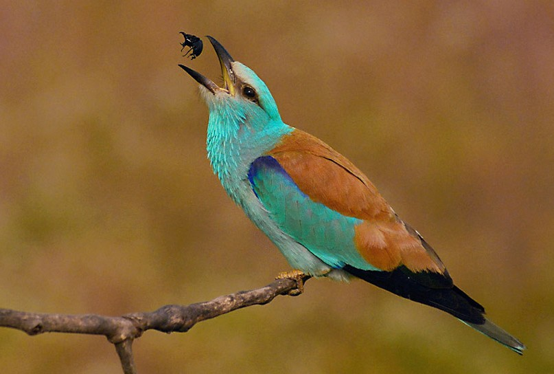 Common_European_Roller_(Coracias_garrulus)_detail from File:Common European Roller (Coracias garrulus).jpg